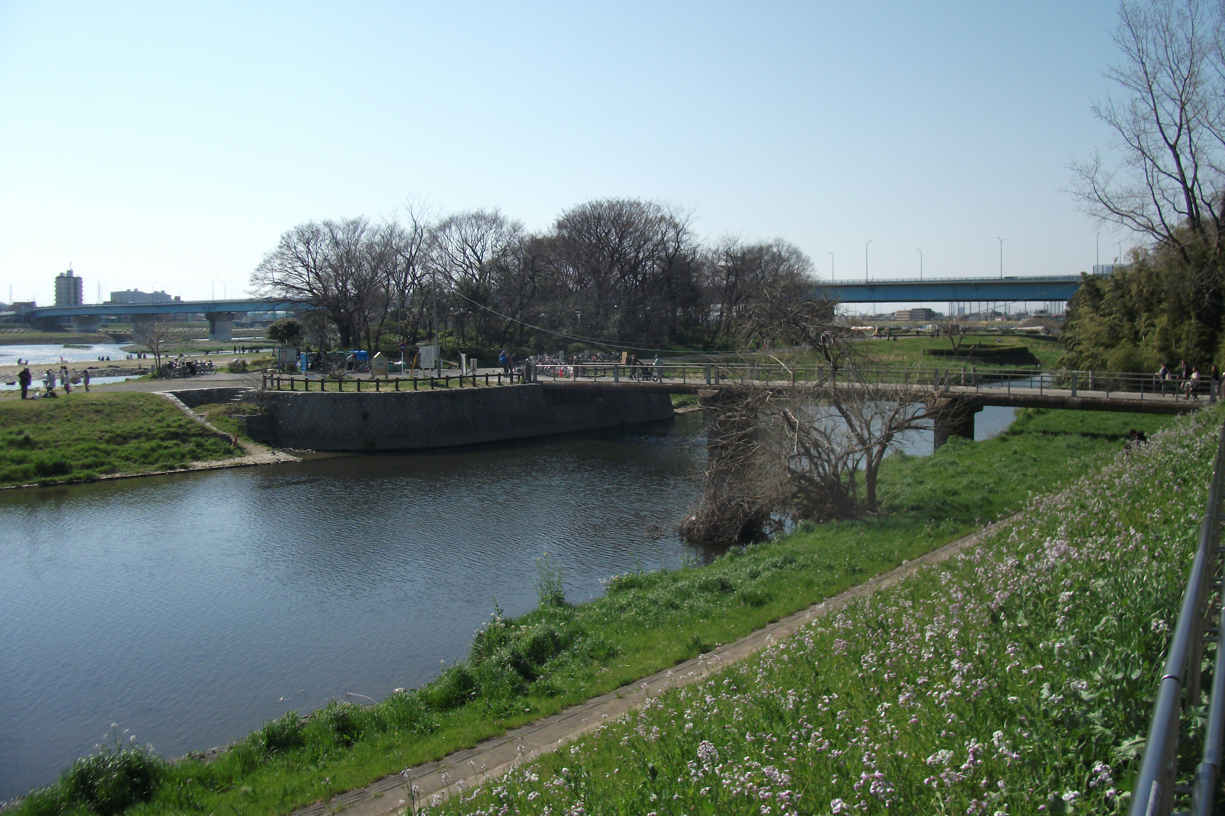 Hyogo Bridge over the river Nogawa in Setagaya, Tokyo, Japan